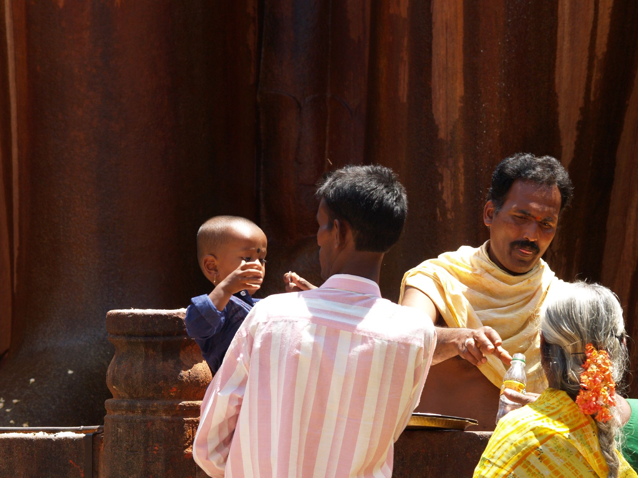 Jain devotees and priest at Shravanbelgola.